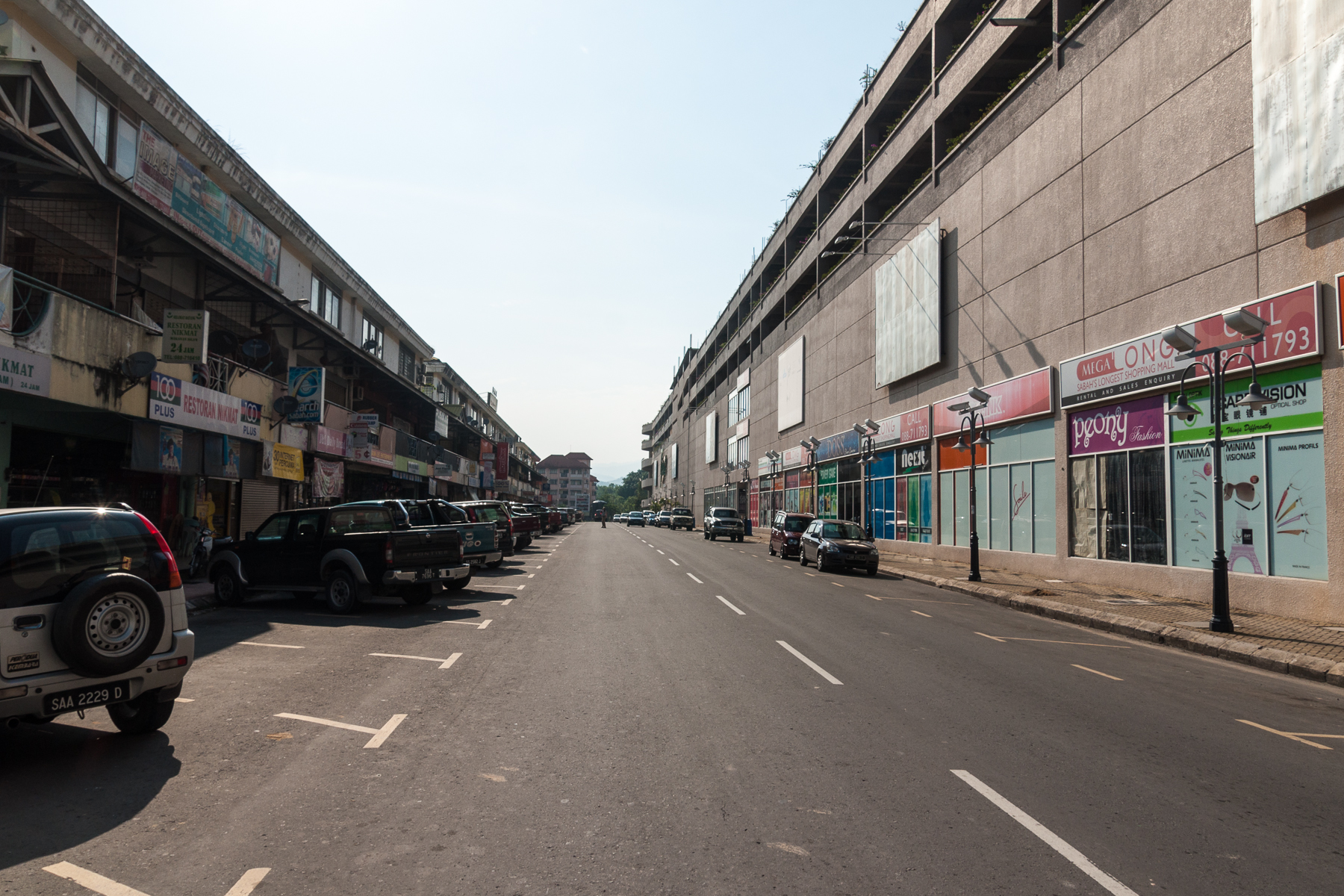 Donggongon, Penampang, Sabah: Megalong Mall, street at the backside)